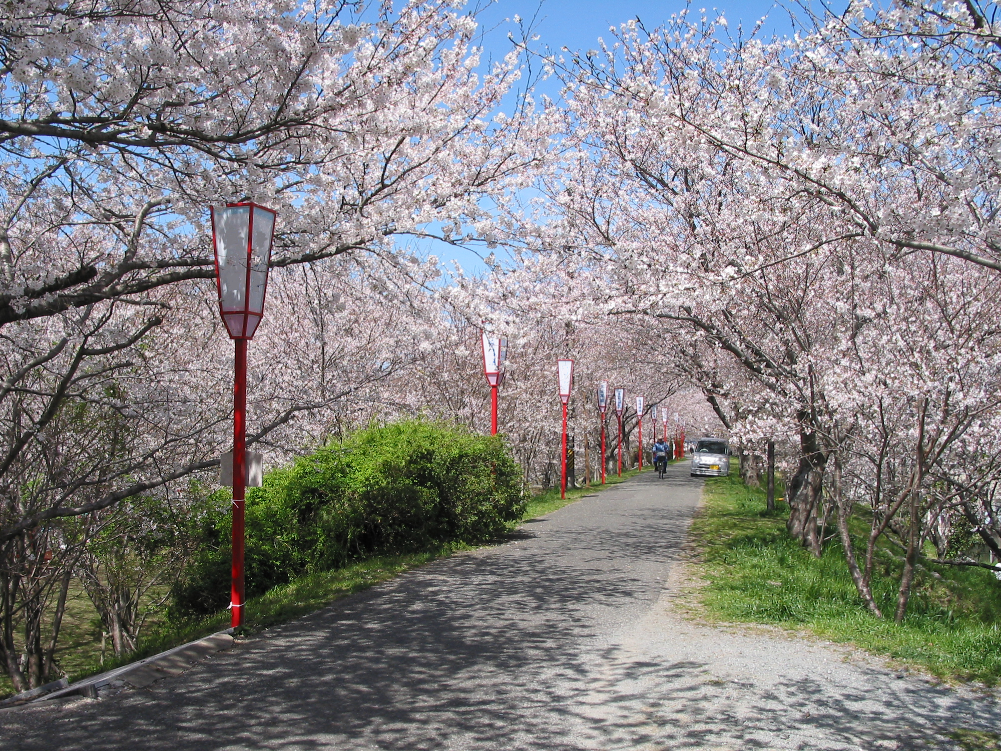 Cherry blossoms at the Miyagawa-Tsutsumi(Dikes of the Miya-river) 宮川堤の桜（三重県伊勢市）